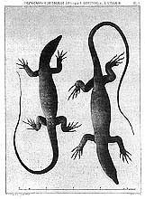 "Photographie Zoologique" by Rousseau and Devéria, 1853, printed documents that reproduce drawings or photographs made using the technique perfected by Niepce de Saint-Victor. Česky: "Photographie Zoologique" by Rousseau and Devéria, 1853, metoda tisku, kterou zdokonalil Claude Félix Abel Niépce de Saint-Victor